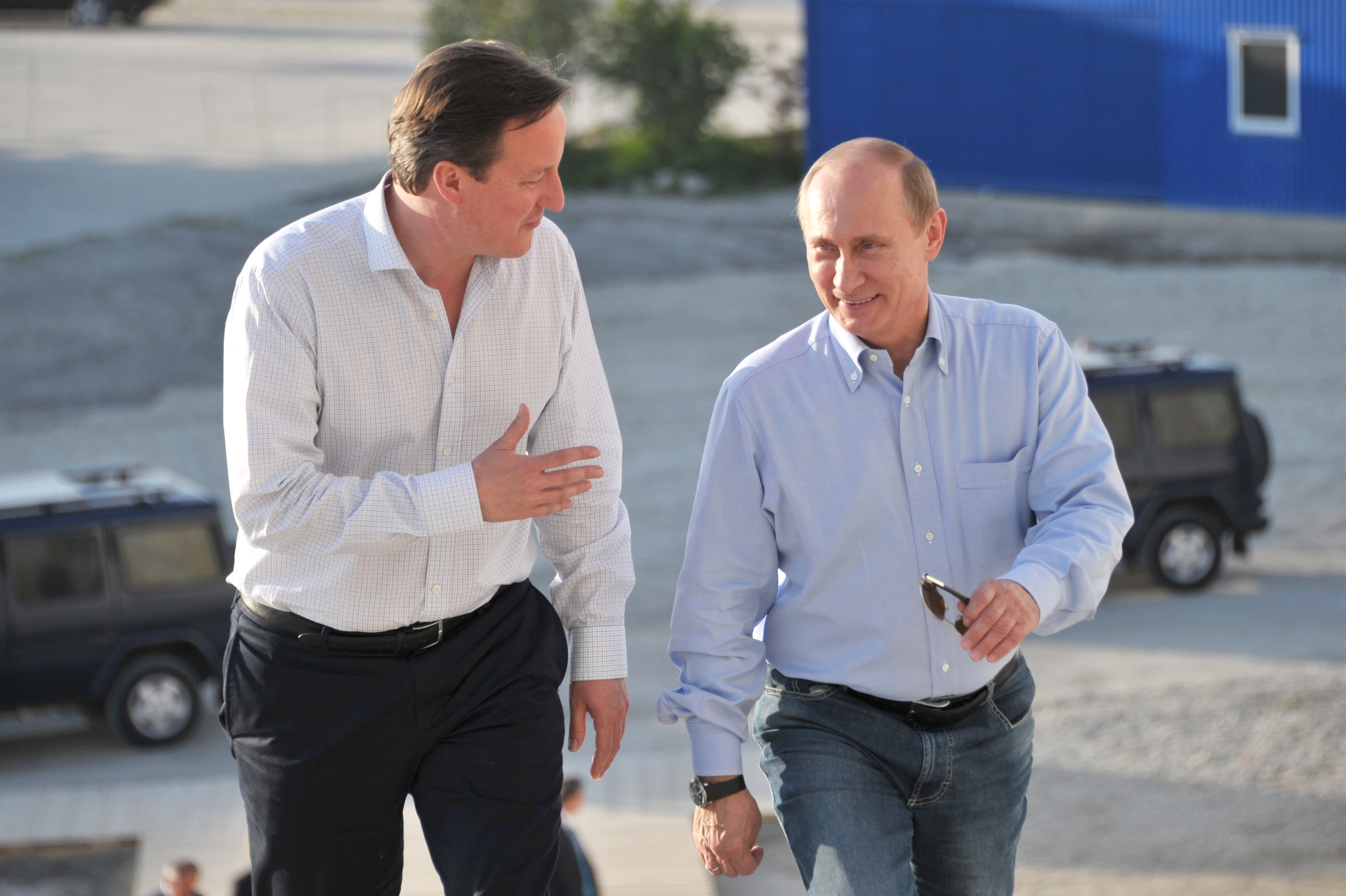 With British Prime Minister David Cameron.